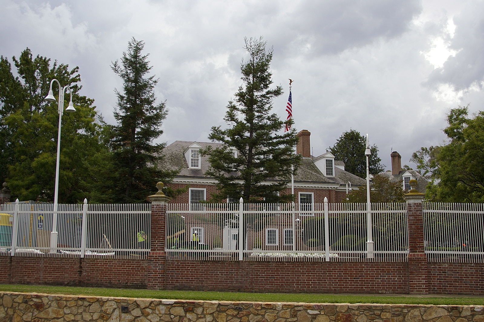 Embassy of the United States located in the Canberra suburb of Yarralumla, Australian Capital Territory, Australia